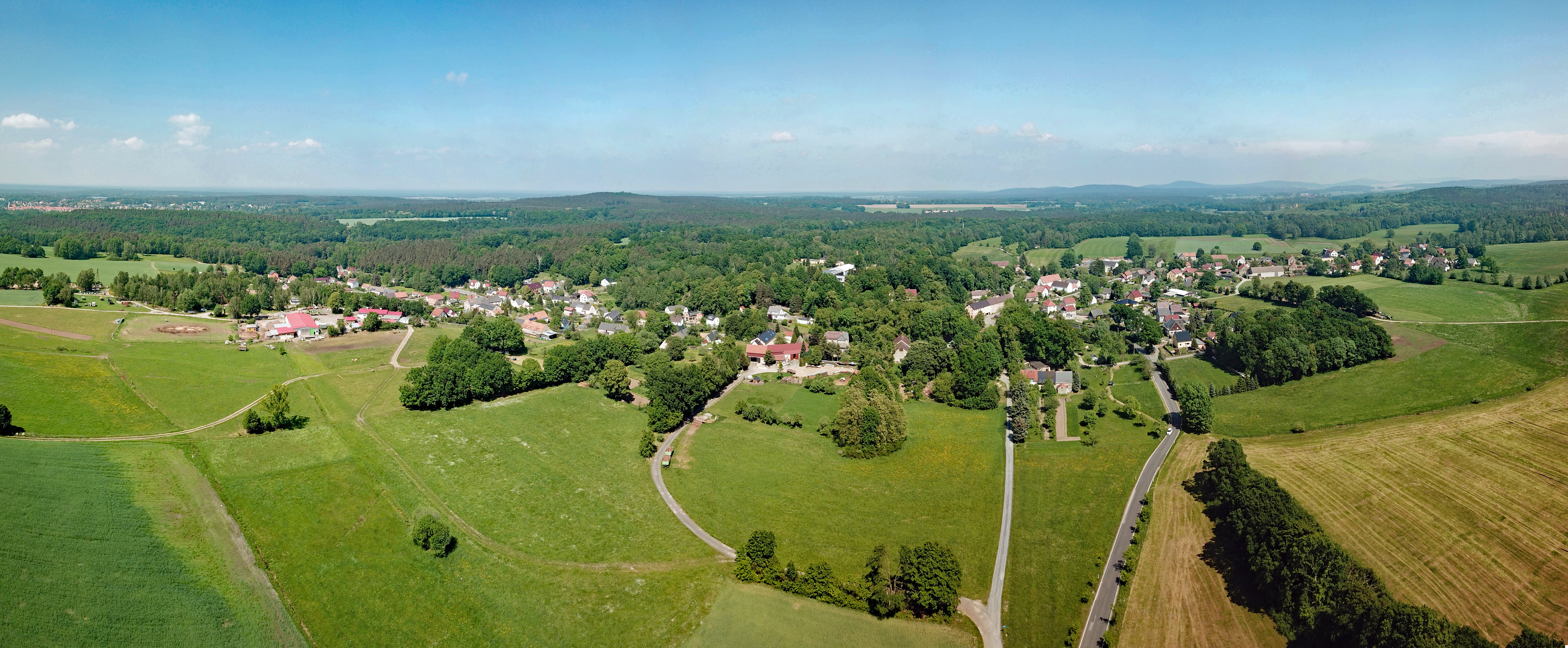 Gräfenhain (Haselbachtal, Saxony, Germany)